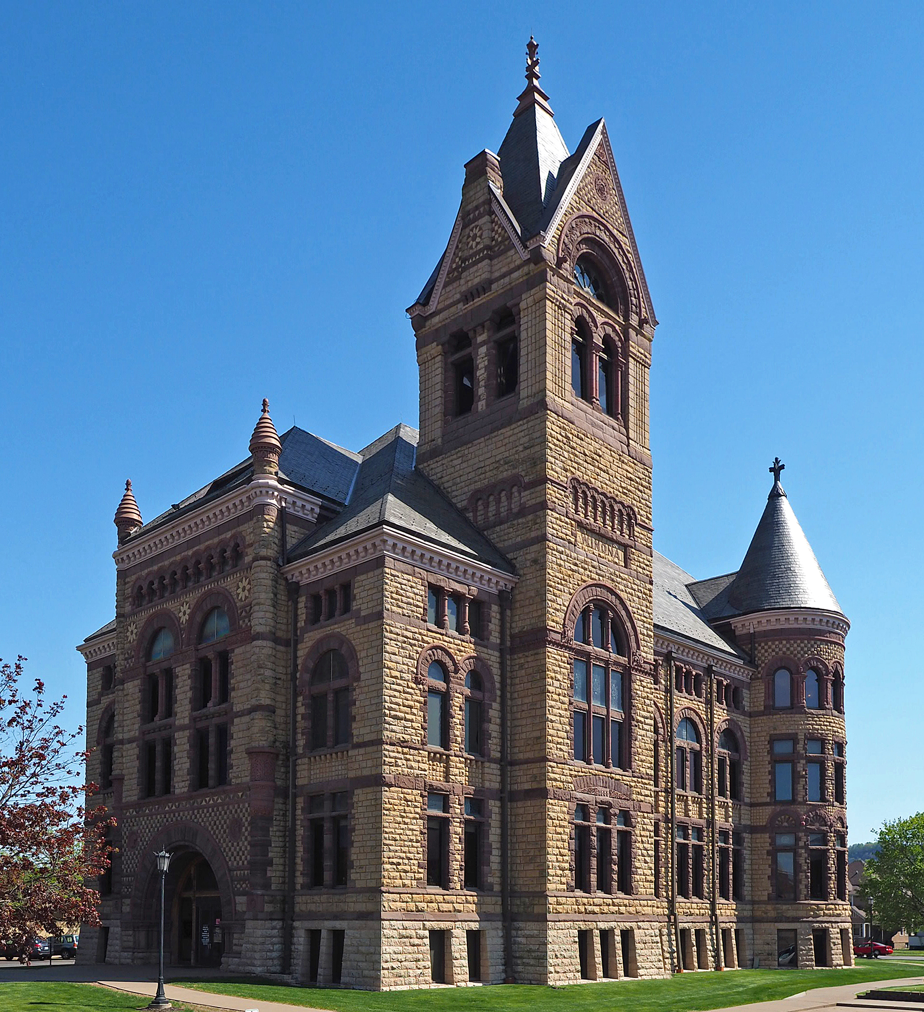 Winona County Courthouse, 171 W 3rd St, Winona, Minnesota, USA. Viewed from the northwest atop my car.